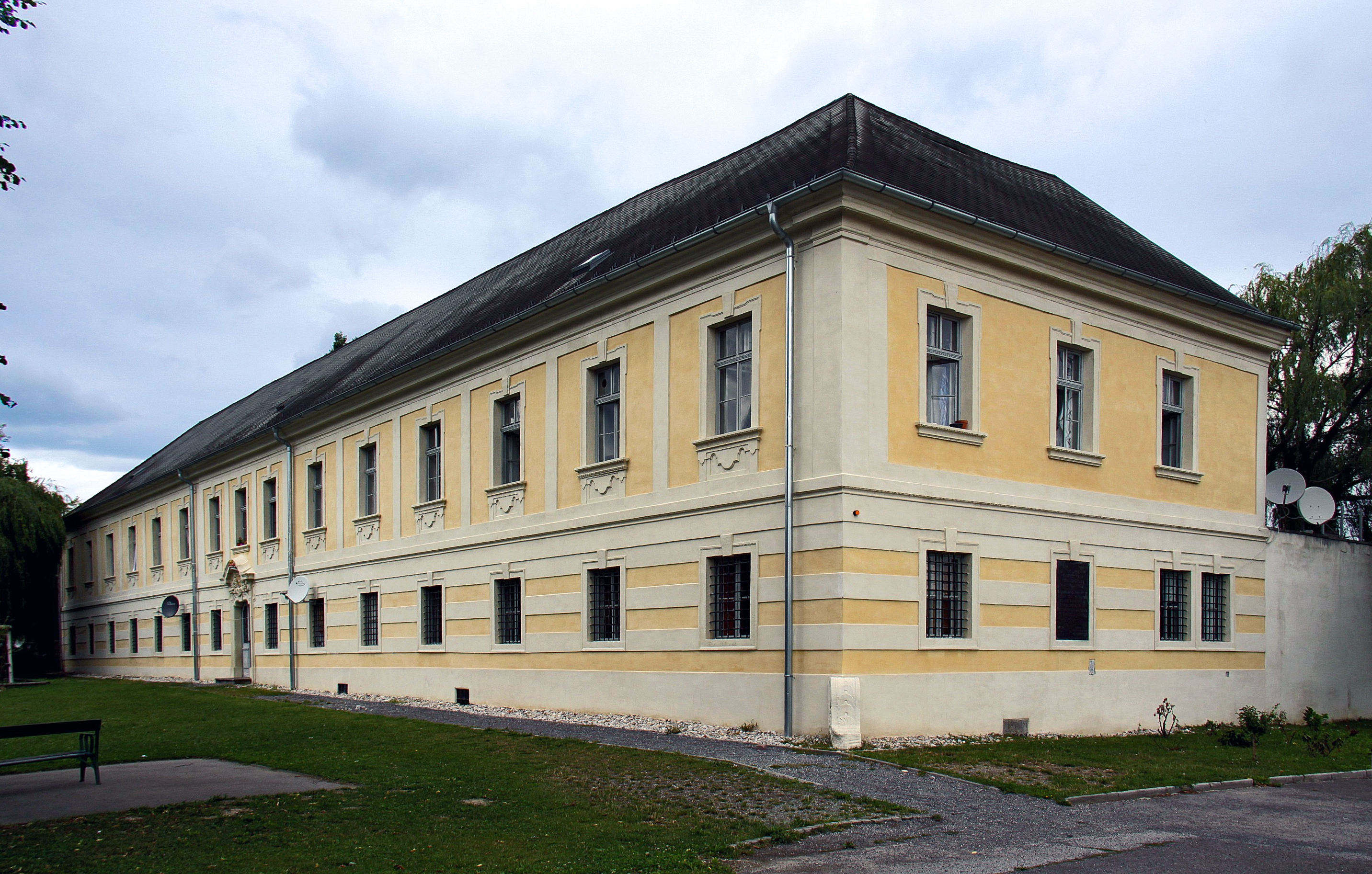 Former Esterházy castle - Neudörfl Object location47° 48′ 06.08″ N, 16° 16′ 32.88″ E